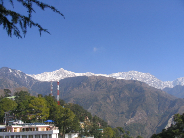 mountains near by the citie of dharamsala